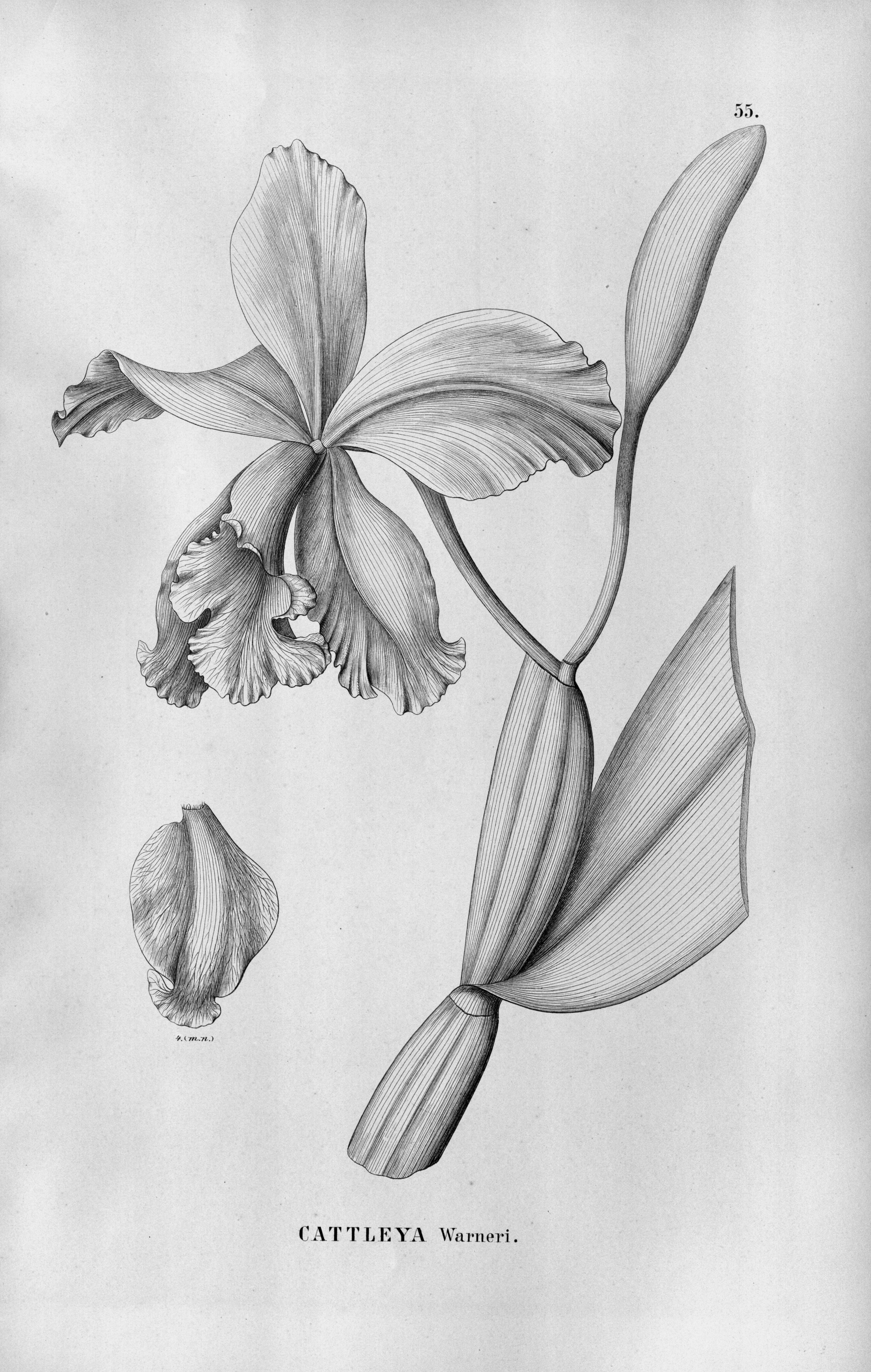 Illustration of Cattleya warneri